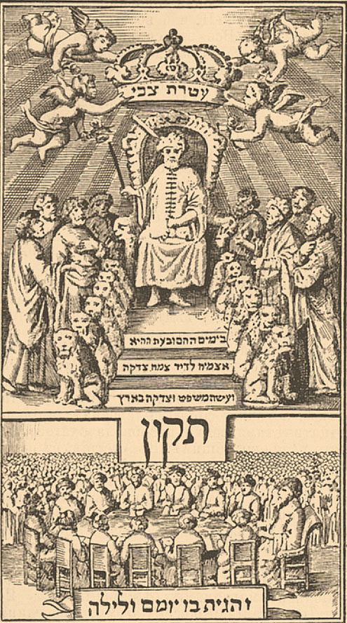 Illustration from Brockhaus and Efron Jewish Encyclopedia (1906—1913)